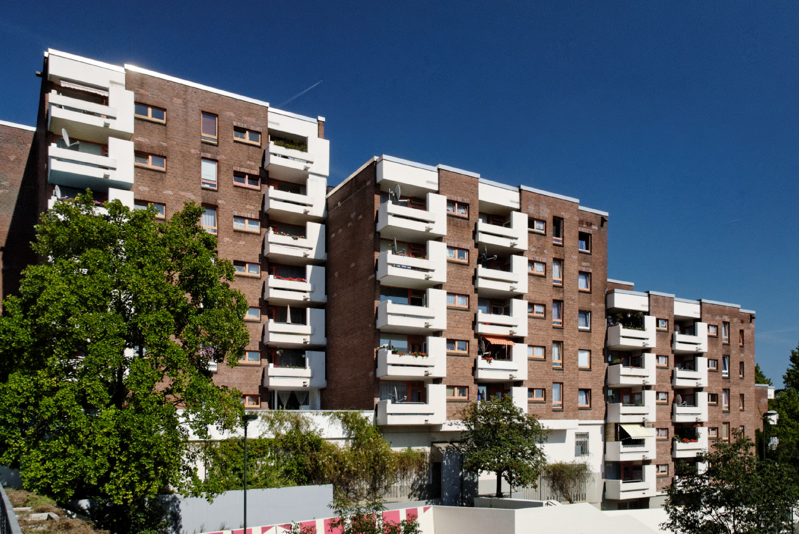 Houses Fritz-Erler-Straße, corner Carl-Friedrich-Goerdeler-Straße in Düsseldorf-Garath, Germany